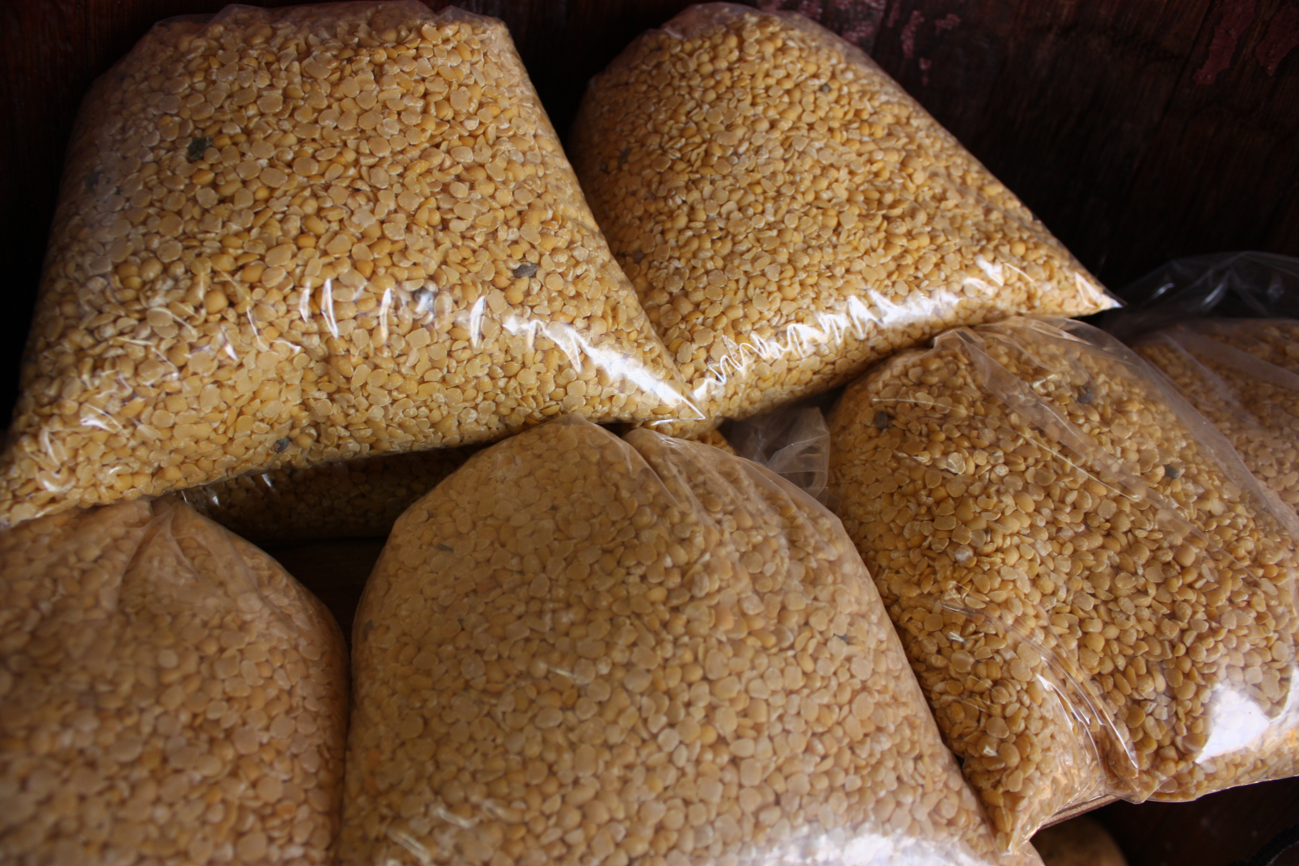 Fava, local product of Santorini... Michalis Mpelas' shop at Akrotiri of Santorini...